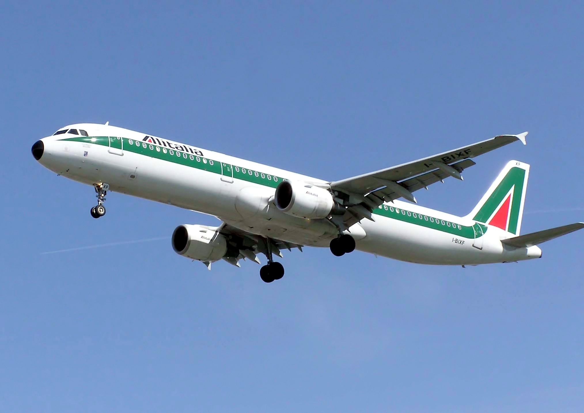 Alitalia Airbus A321-100 (I-BIXD) lands at London Heathrow Airport, England